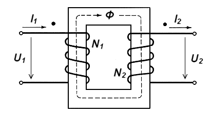 Transformer (principle) with symbols for voltage (U), current, flux and windings.